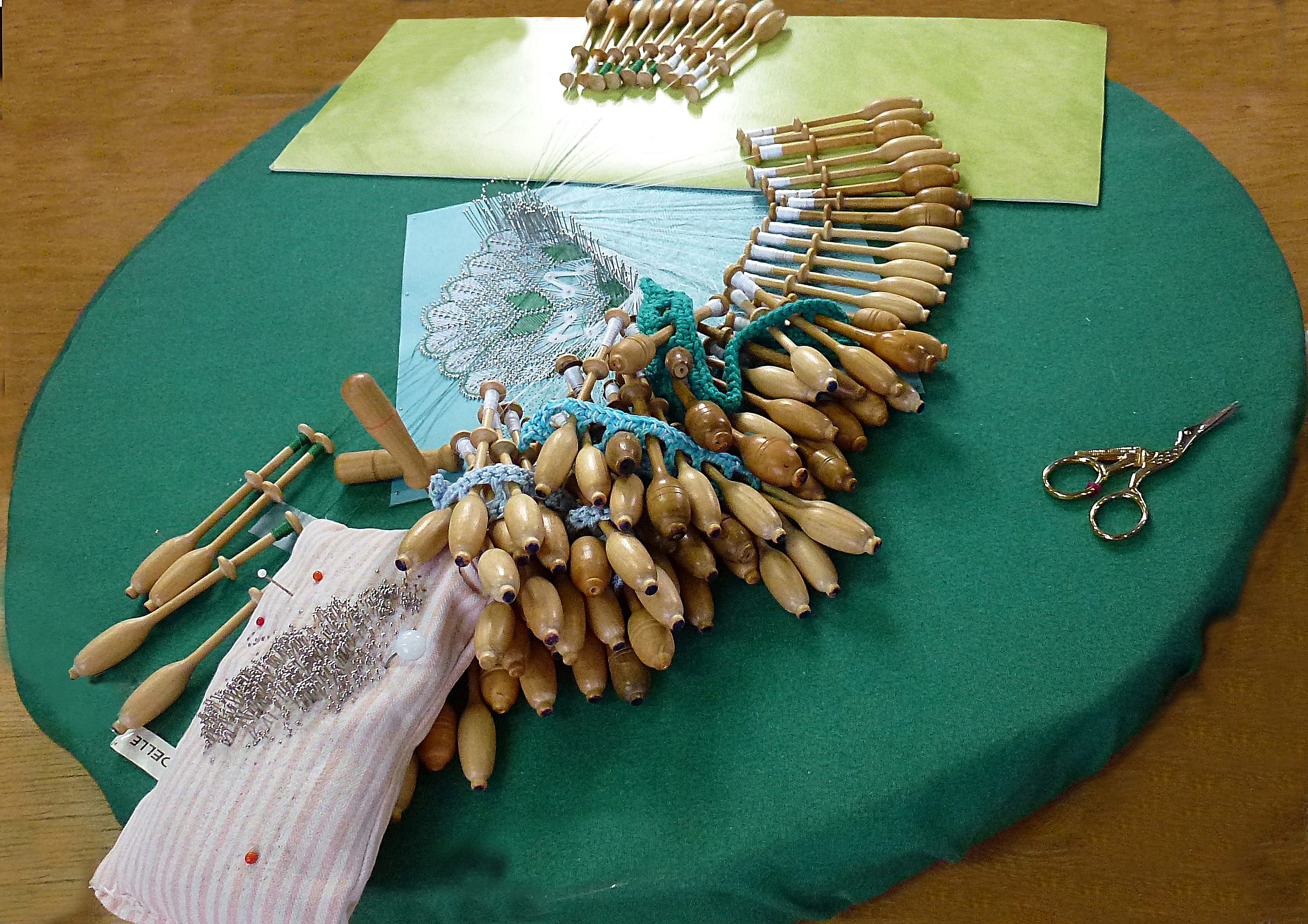 Bobbin lace academic school Bailleul Nord.- France.